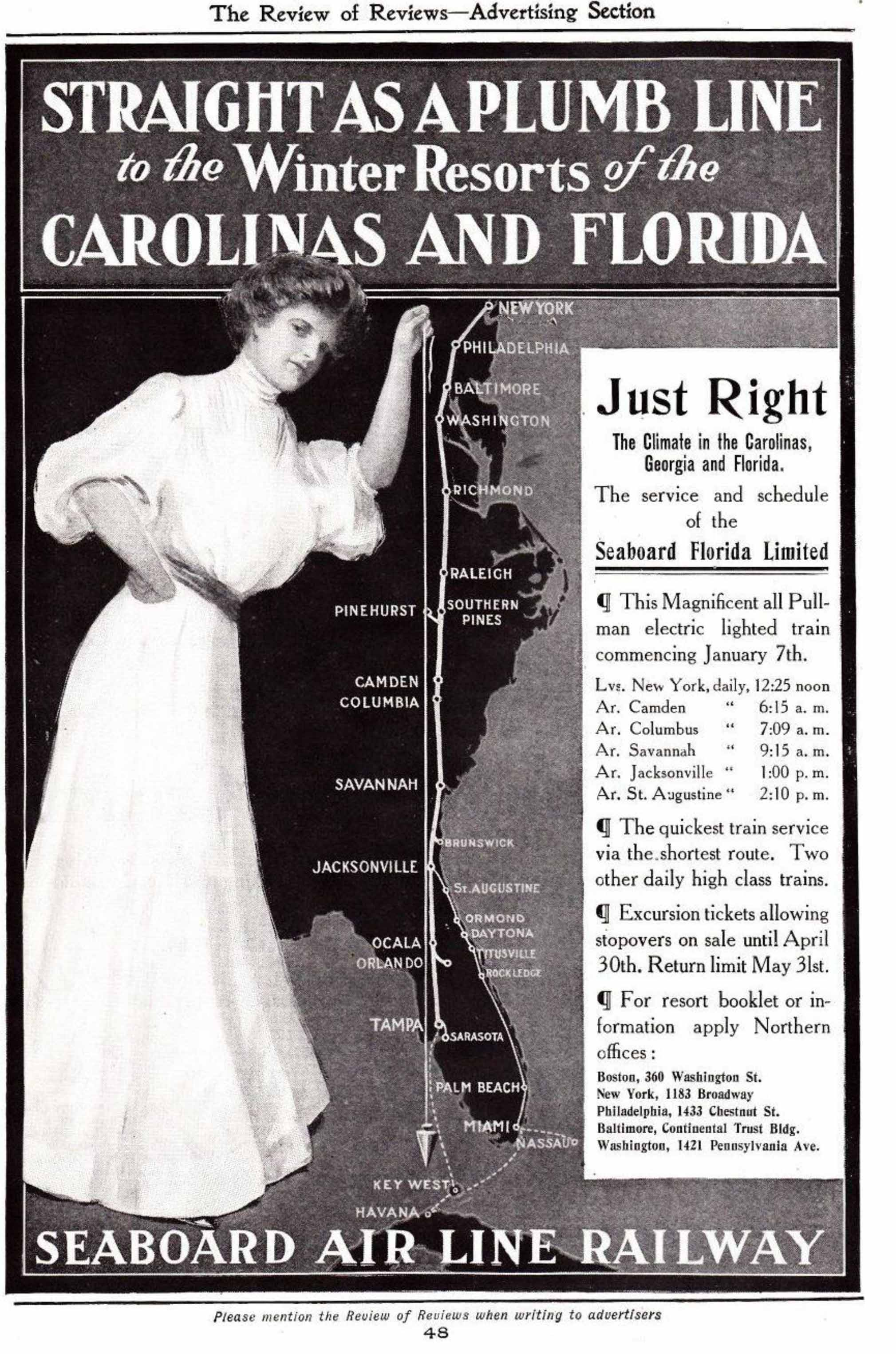 "Straight as a plumb line" advertisement for Seaboard Air Line Railway, from periodical Review of Reviews, 1902.